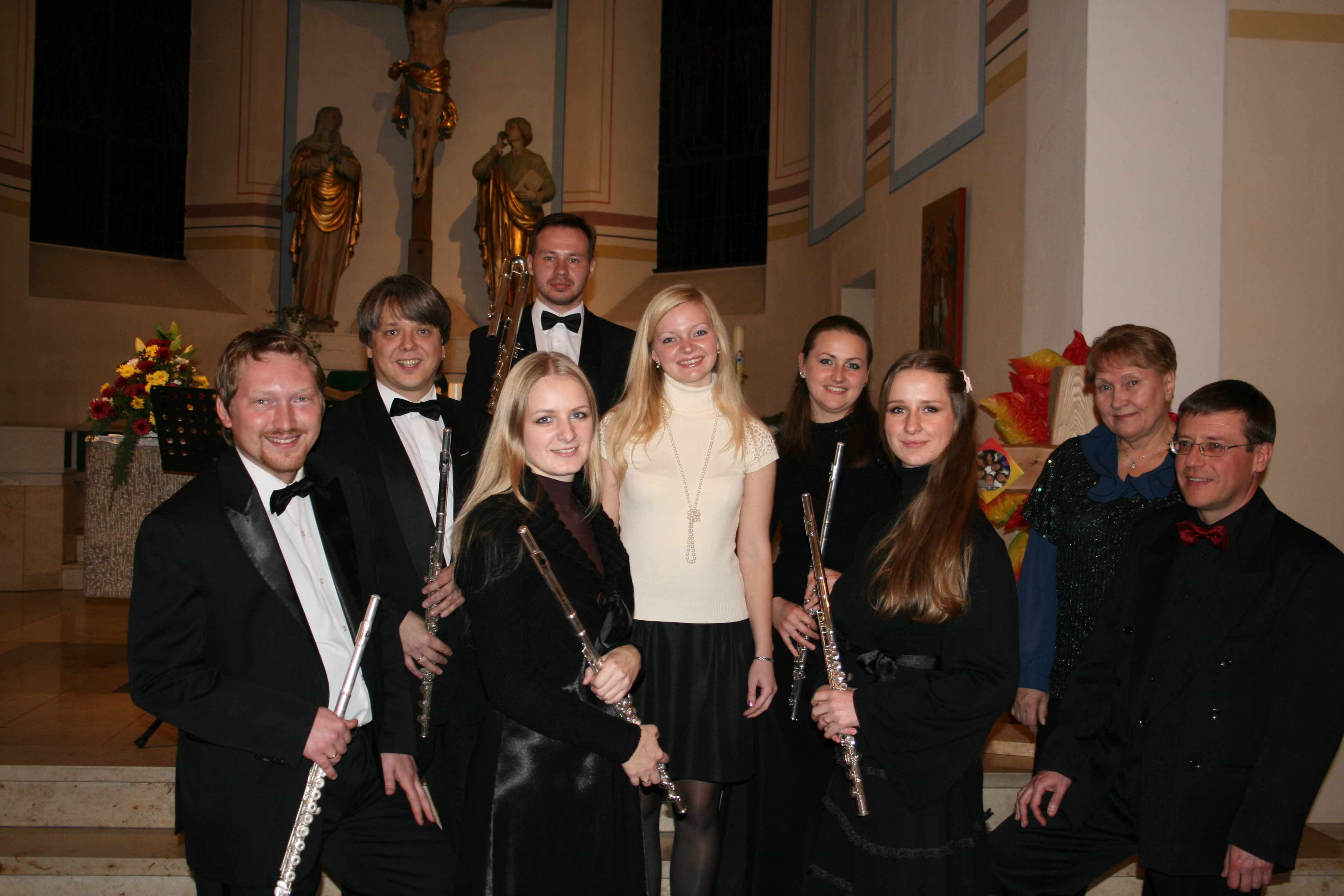 Flute ensembel Syrinx German tour 2010